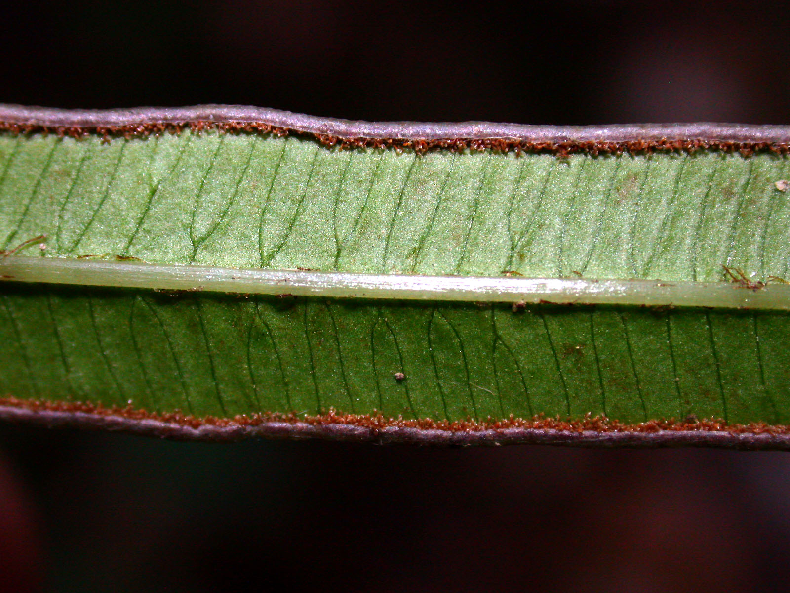 Pteris cretica